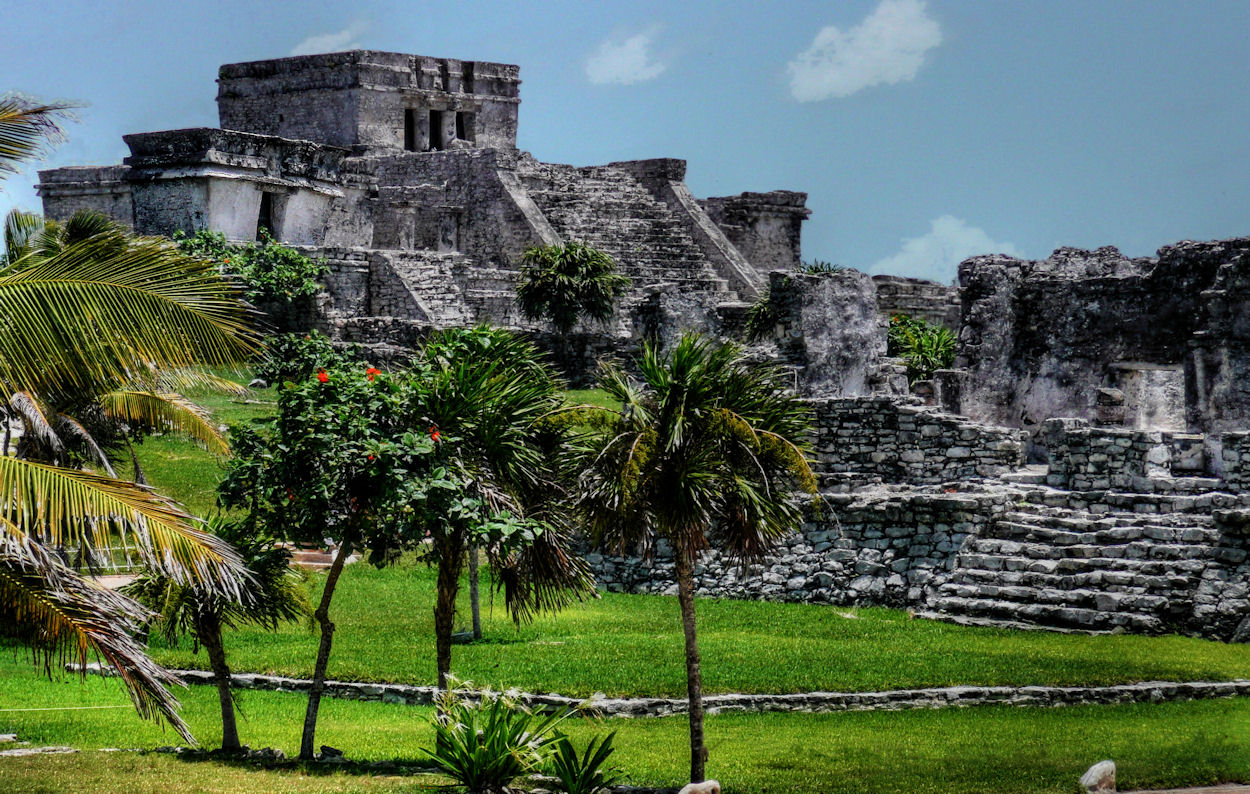 Maya Site: Maya Pyramid at Tulum. Tulum is just across the water from Cozumel, Mexico.